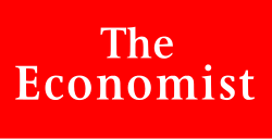 The official logo of the British magazine, The Economist.